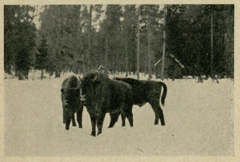 Young hybrids of European bison (Bison bonasus) and American Buffalo (Bison bison) in Białowieża, winter 1931